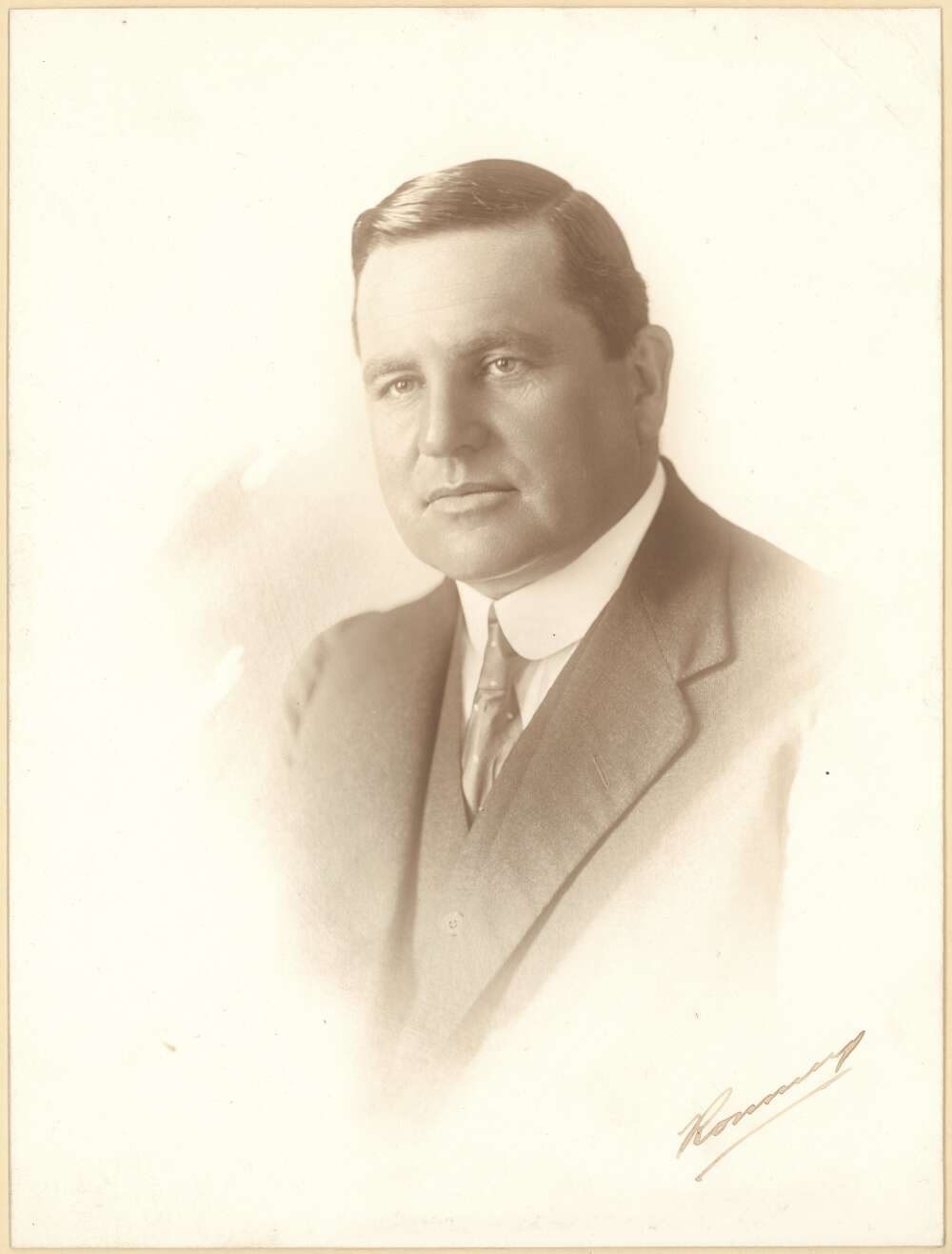 Thomas Ley